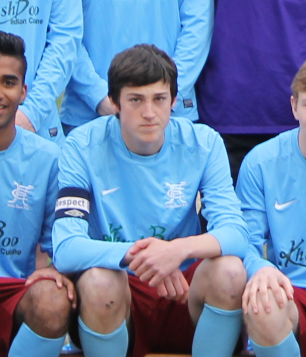 Ashley Nadesan in Horley Town youth team photo